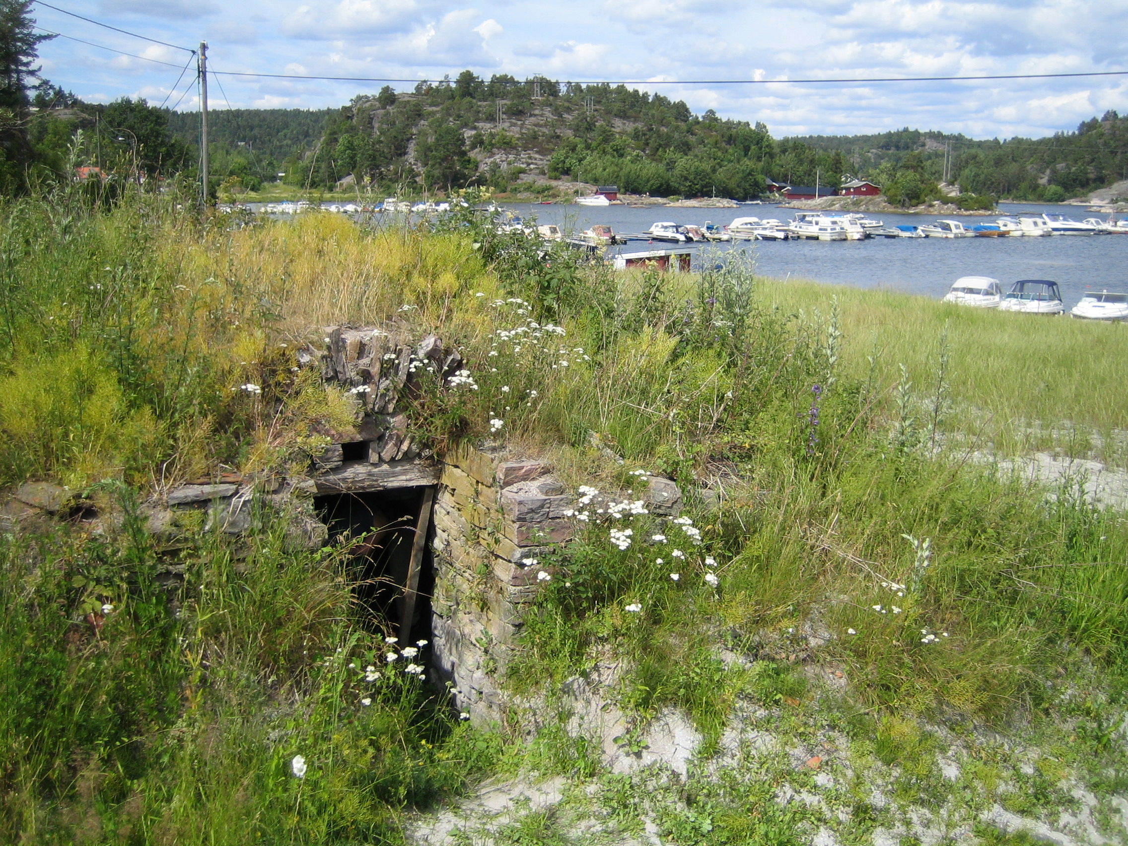 Gun powder cellar